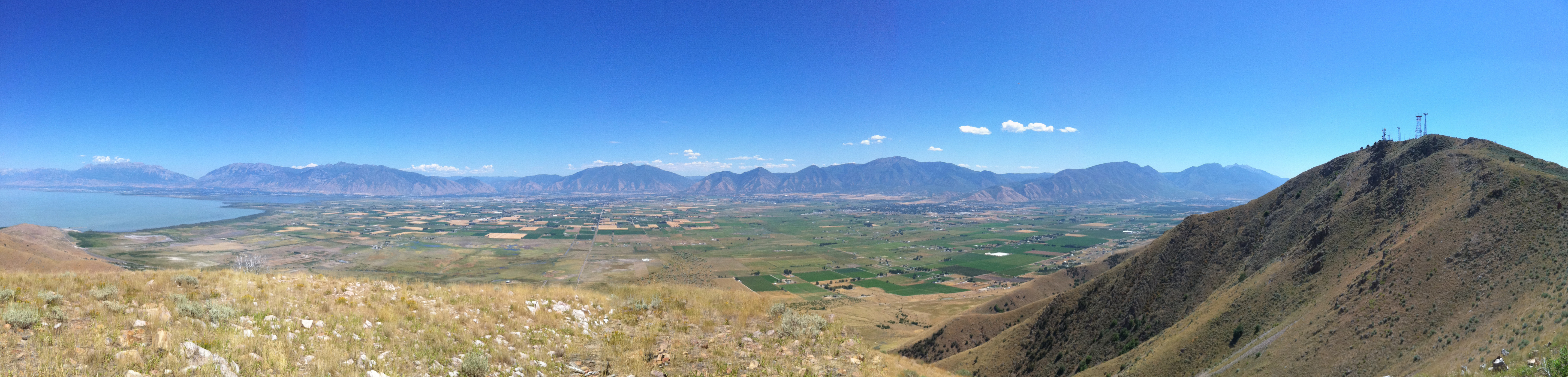 Panorama to show view of southern Utah County from West Mountain.